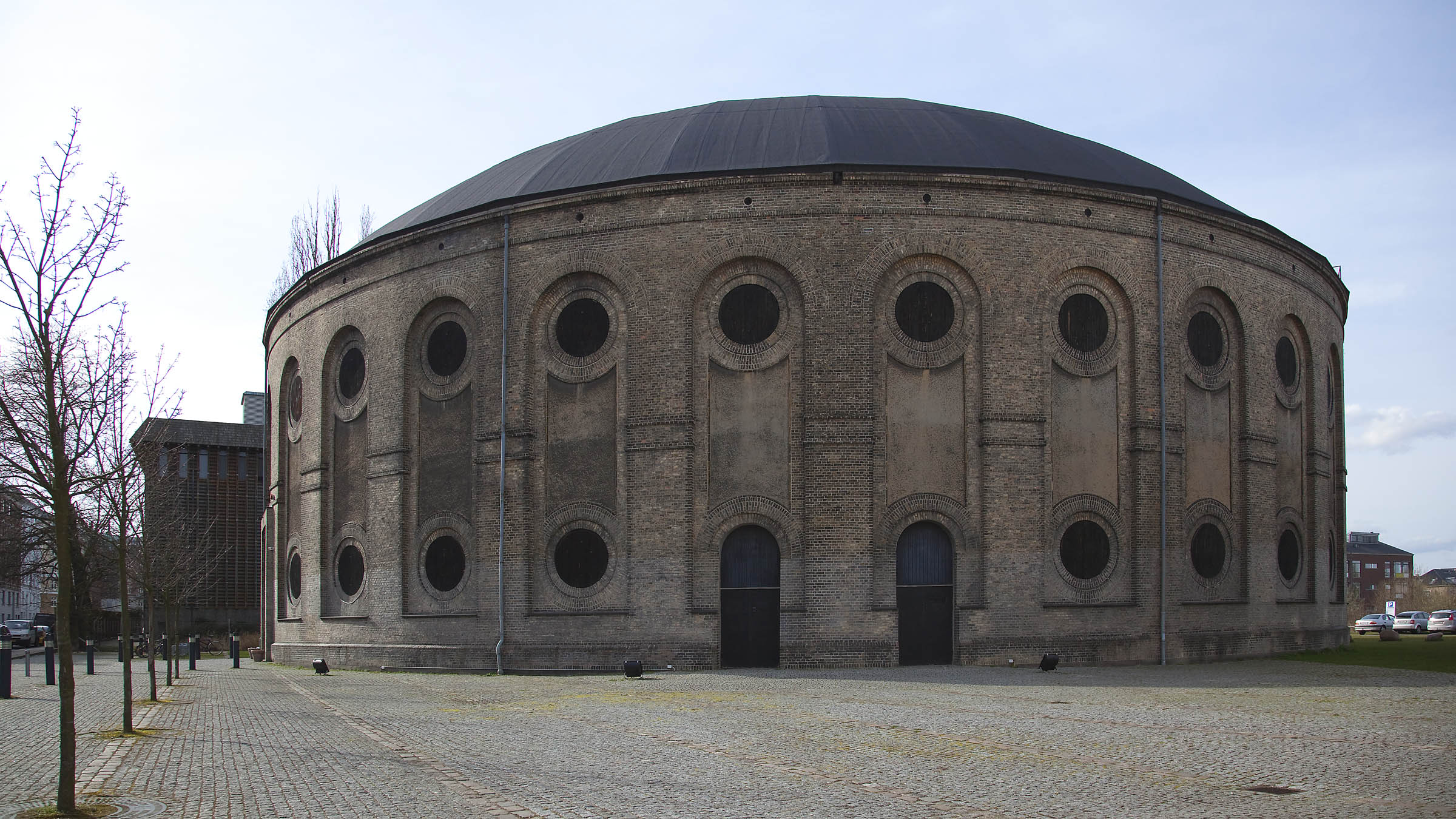 The 'Østre Gasværk' as it is seen today was created by architect Martin Nyrop in 1881; left: Svanemøllen substation